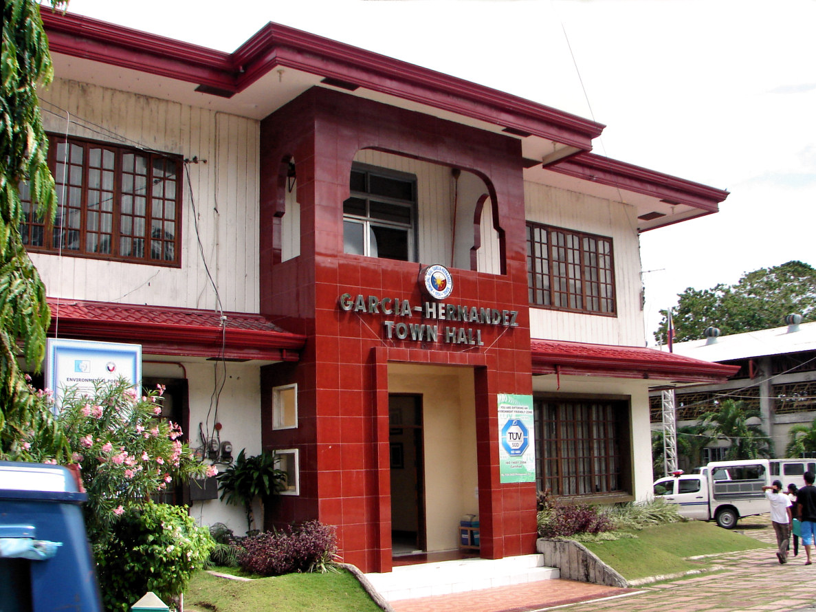 Town hall of Garcia Hernandez, Bohol, the Philippines